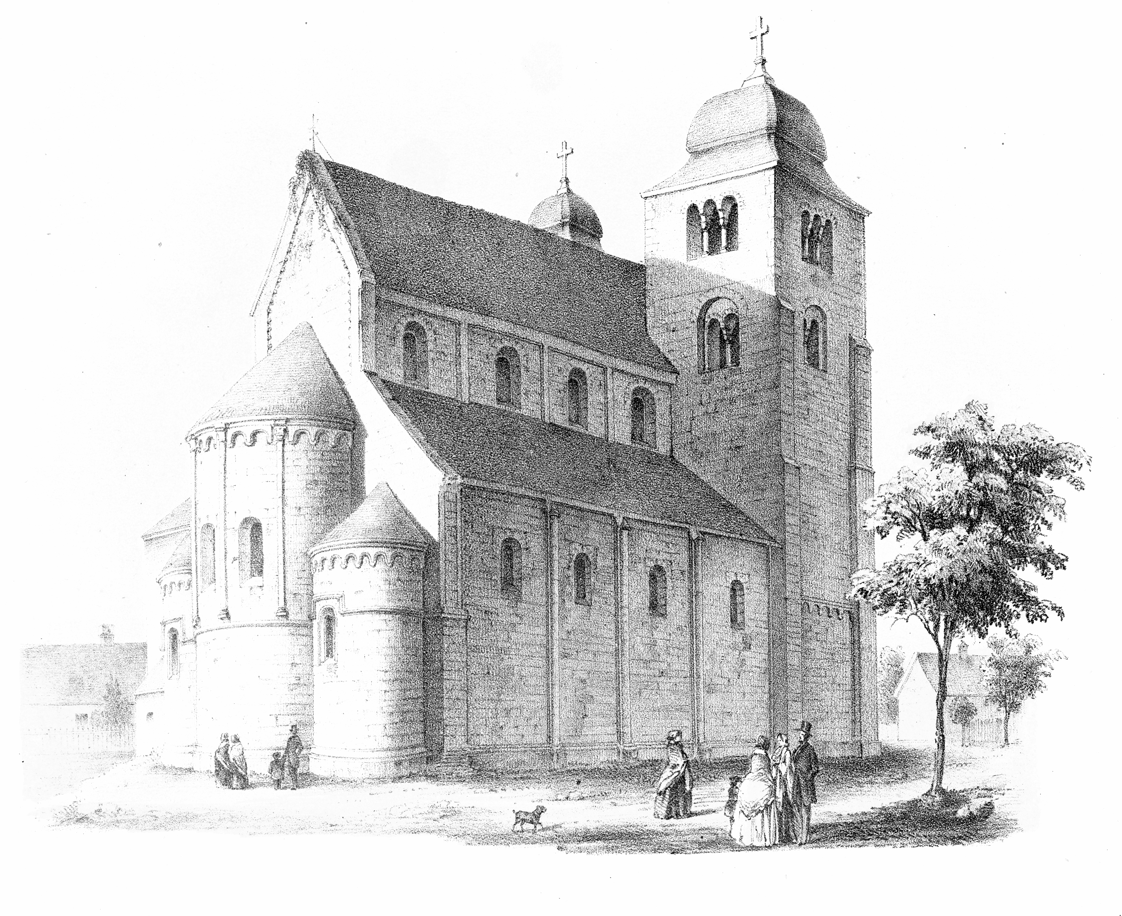 Bilder aus dem in derselben Kategorie befindlichen Artikel aus den Mittheilungen der kaiserl. königl. Central-Commission zur Erforschung und Erhaltung der Baudenkmale Band 2, 1857. Scanprojekt Bundesdenkmalamt Österreich This scan or this PDF-file was created within the Austrian Wikipedia-project Denkmalpflege Österreich (German only) supported by Wikimedia Germany and Wikimedia Austria as part of the Wikipedia community-project to collect public domain documents from the library of the Heritage Monuments Board of Austria. This document describes or depicts an object which is located in Hungary today. Send requests for uncompressed scans to Hubertl. This work is in the public domain in the United States, and those countries with a copyright term of life of the author plus 100 years or less. This file has been identified as being free of known restrictions under copyright law, including all related and neighboring rights.